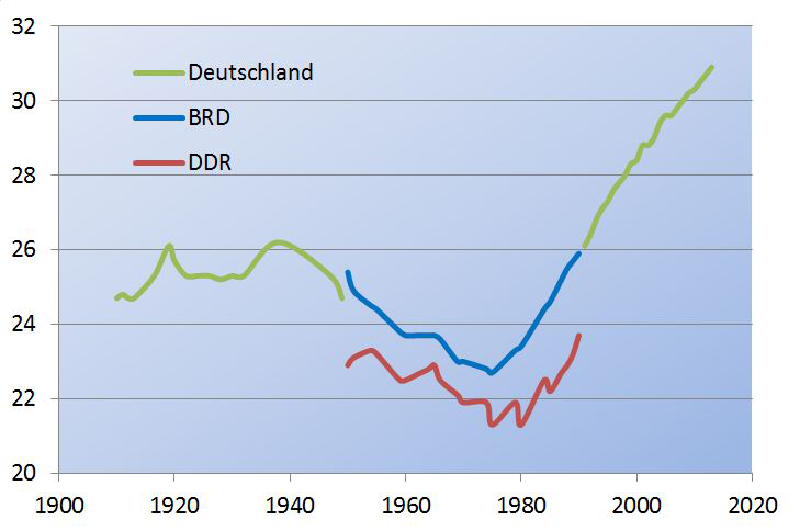 Average marrying age (1st marriage) of women in Germany, 1910-2013, various data sources